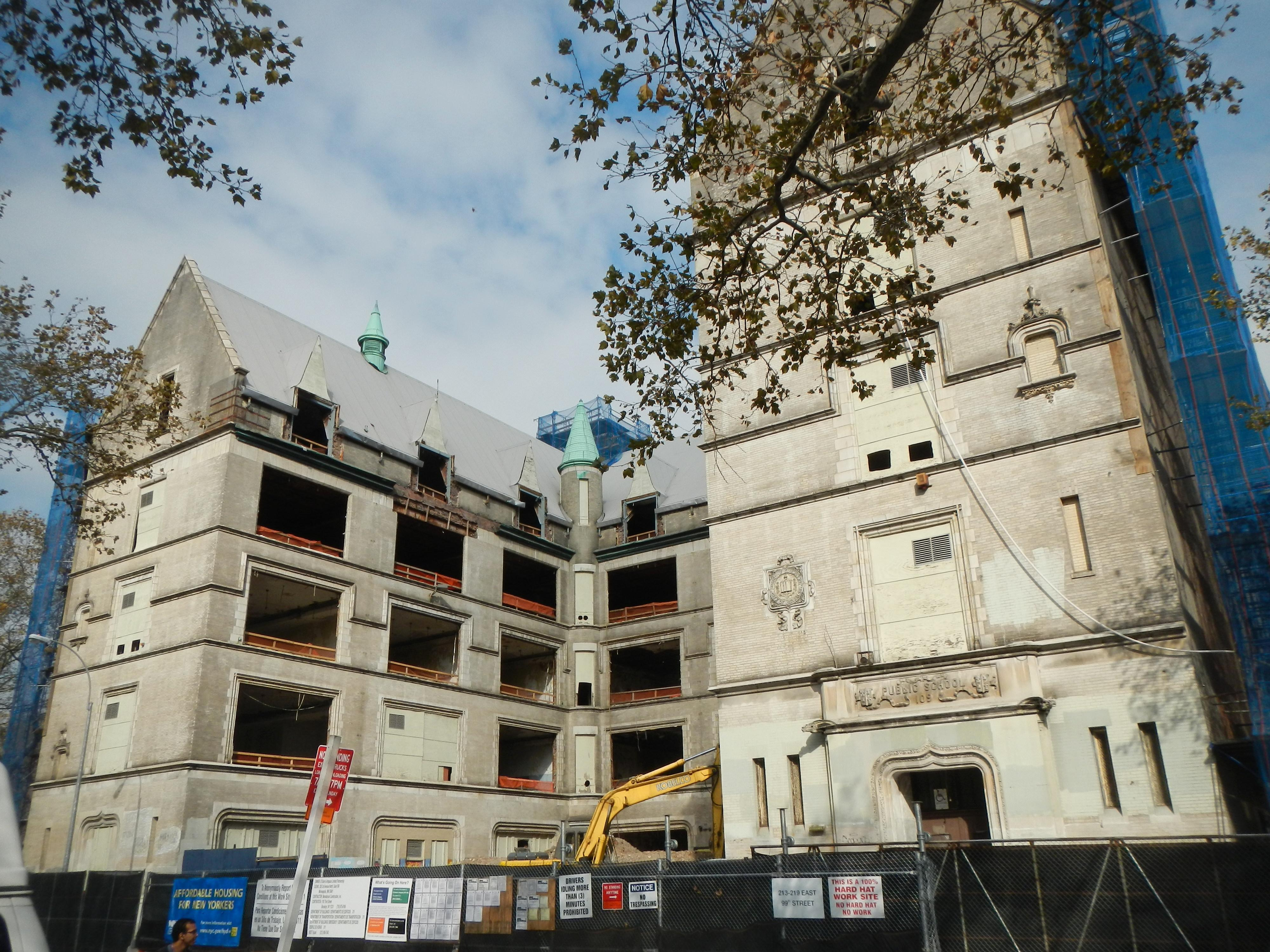 Looking north across 99th Street at old PS 109 being converted for use as El Barrio's Artspace PS109.